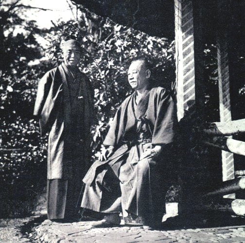 Japanese Prime Minister Keisuke Okada (岡田啓介, 1868–1952, in office 1934–36, right) and his brother-in-law and personal secretary, Denzō Matsuo (松尾伝蔵).